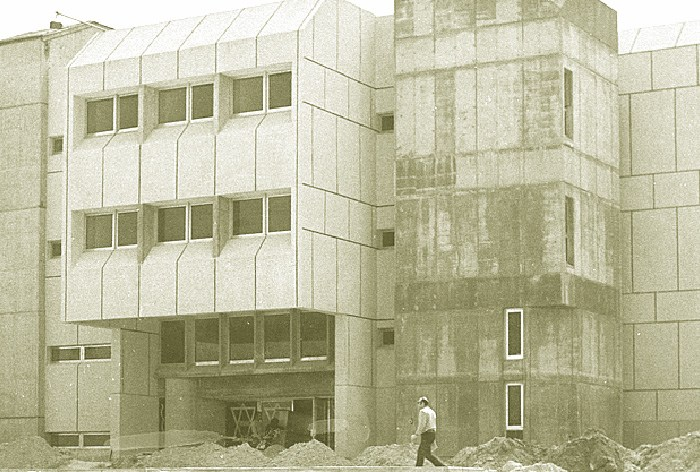 ציוני דרך האוניברסיטה הפתוחה